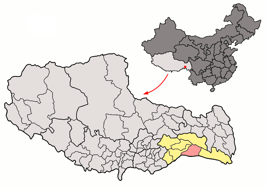 Location of Mêdog County (pink) and Nyingchi prefecture (yellow) within Tibet (Xizang) autonomous region of China